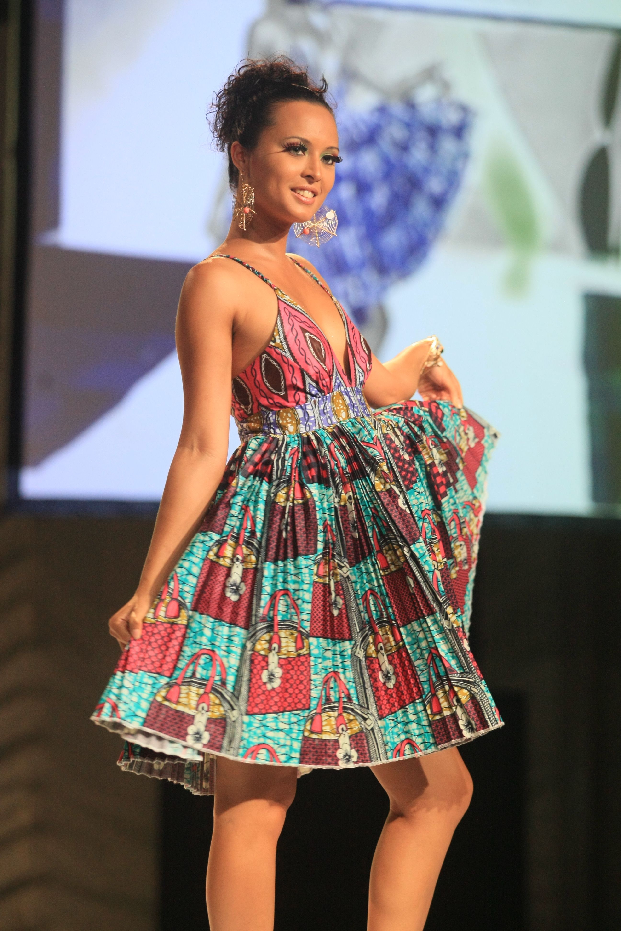 Fashion from the USAID-supported Origin Africa Fiber to Fashion Event in Mauritius, March 2011. Photo credit: USAID/COMPETE.